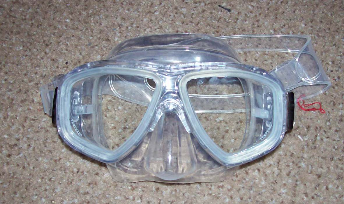 A soft-silicone strapped SCUBA diving mask without a purge valve.